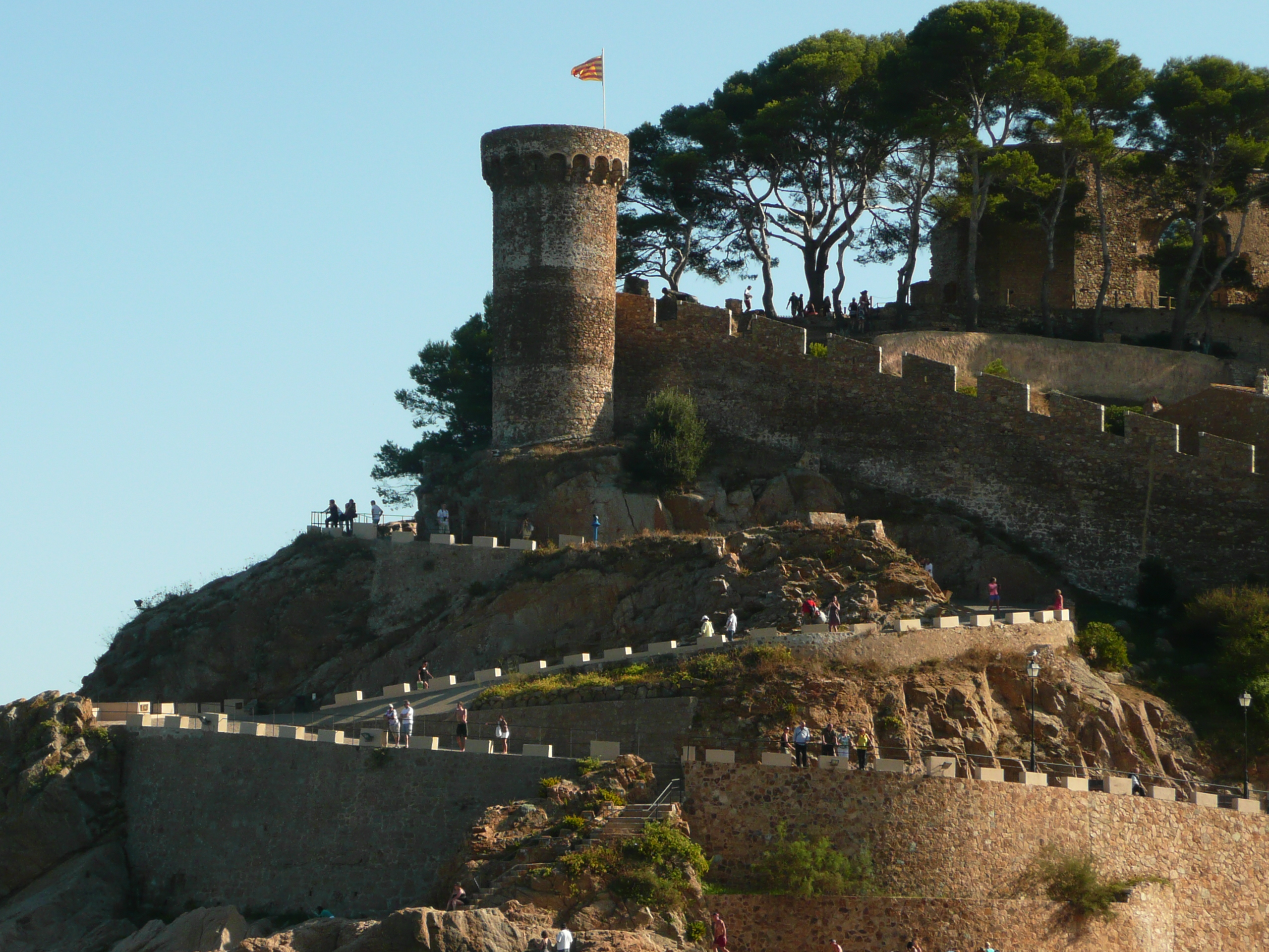 Tossa Castle SPAIN